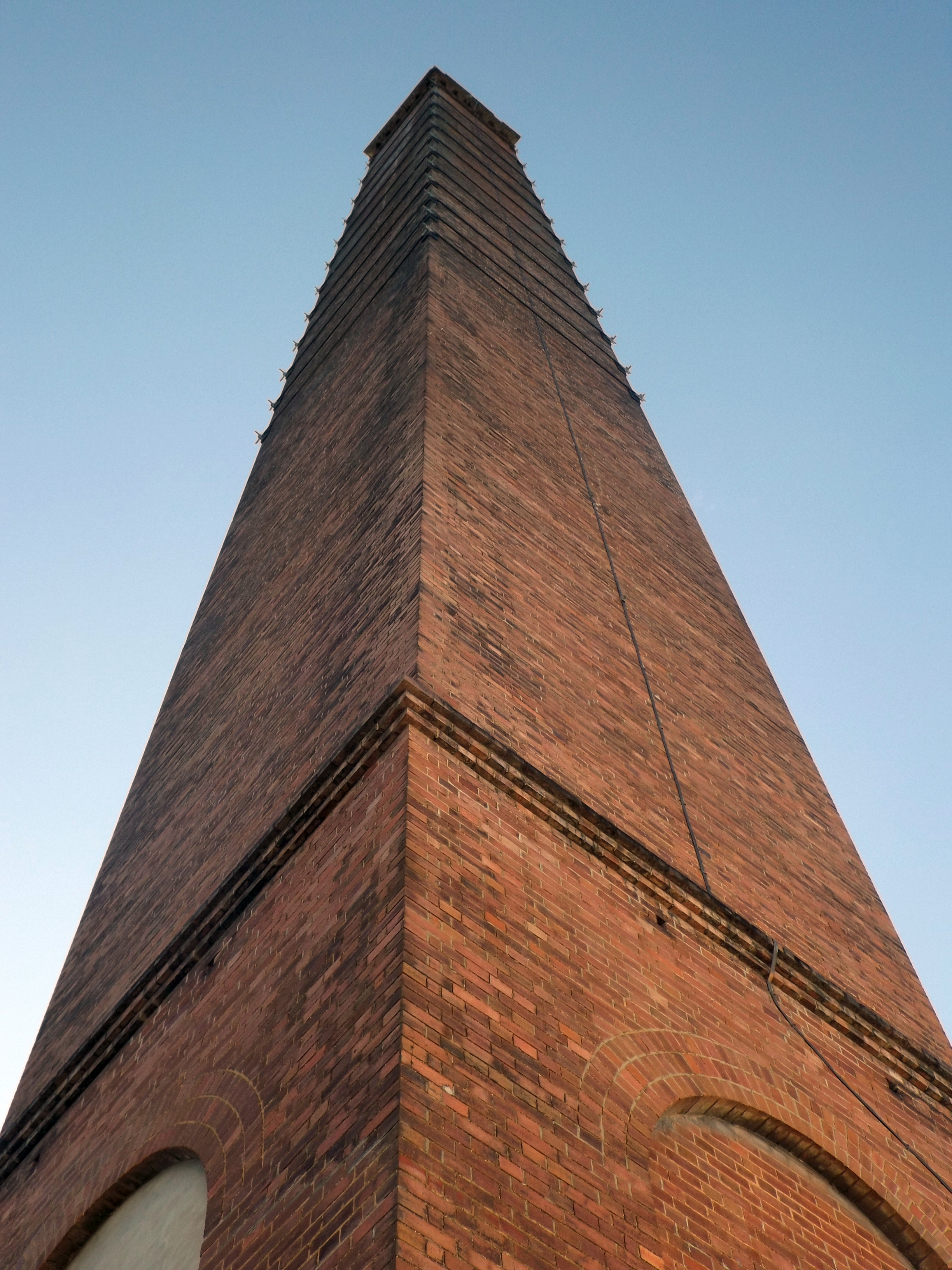 Photo of Newmarket Brickworks Chimney at Alderley, Brisbane, Queensland, Australia.